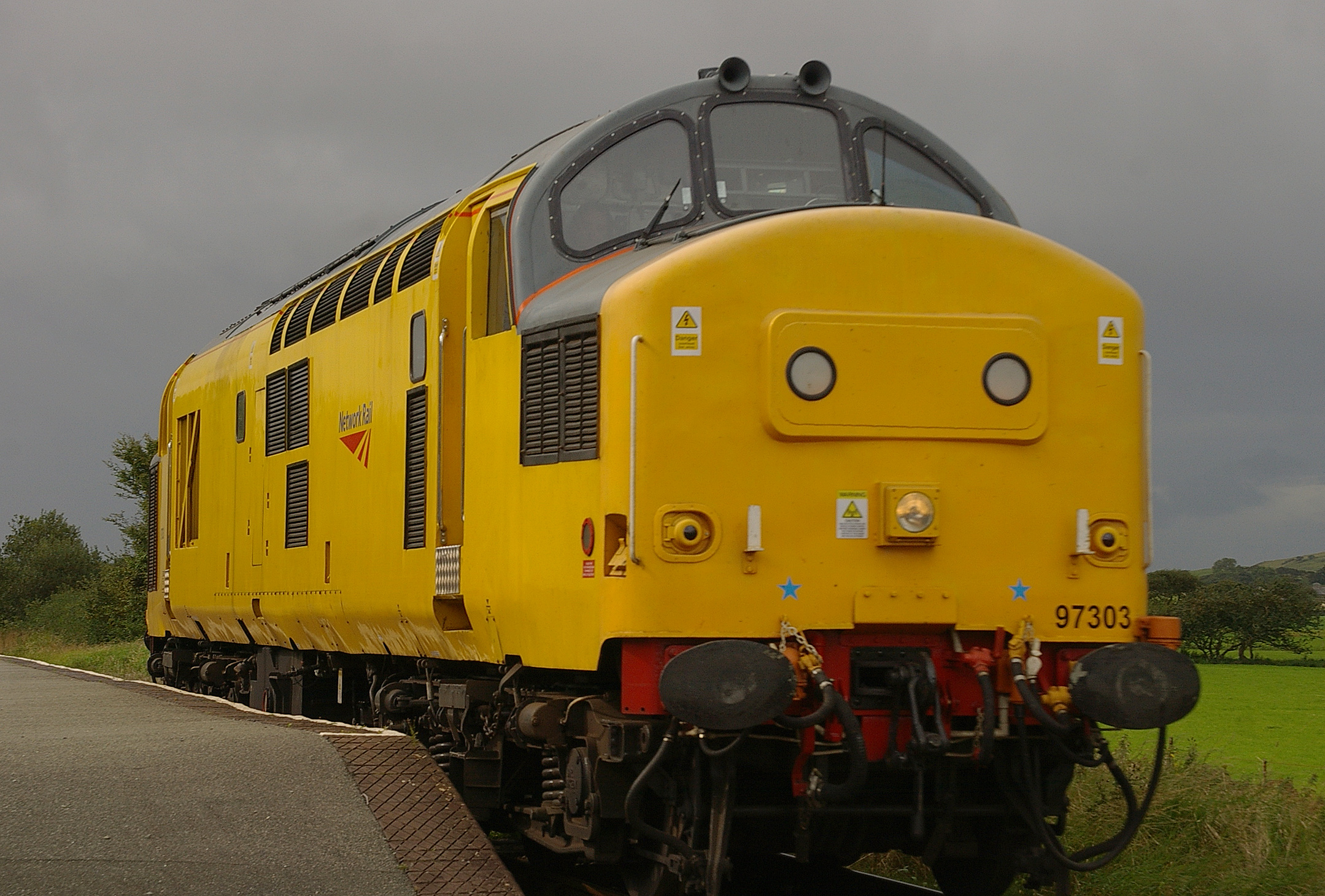 Network Rail 97303 speeds north through Talsarnau on the Cambrian Coast Line. About 24hrs later it would hit a car and kill an old lady at an unmanned level crossing near Penrhyndeudraeth.